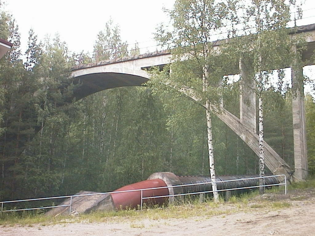 Parantalankoski railway bridge on Jyväskylä–Haapajärvi line in Äänekoski, Finland